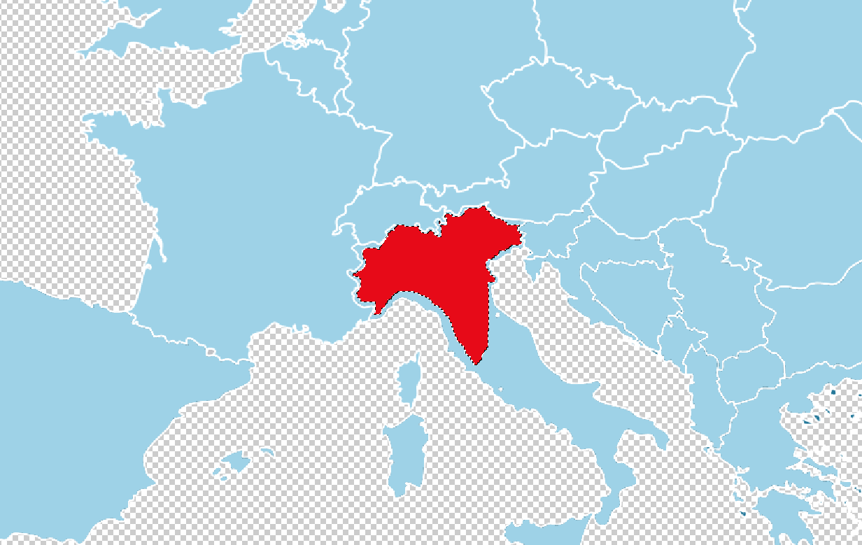 Distribution Map